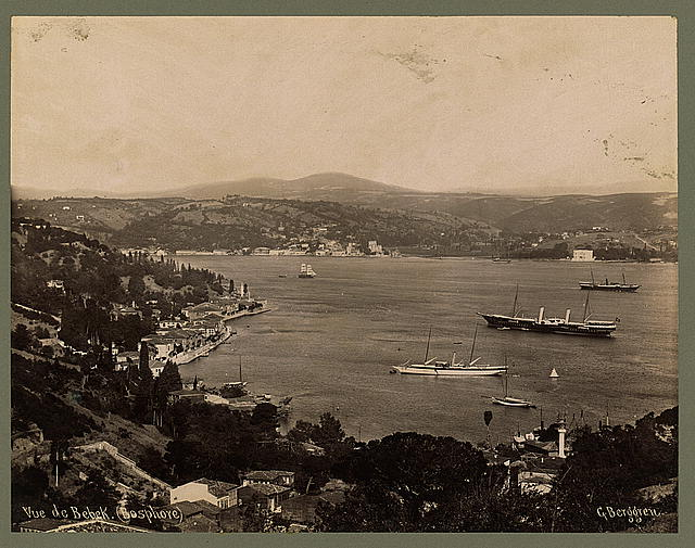 Bebek, Beşiktaş between 1870 and 1910